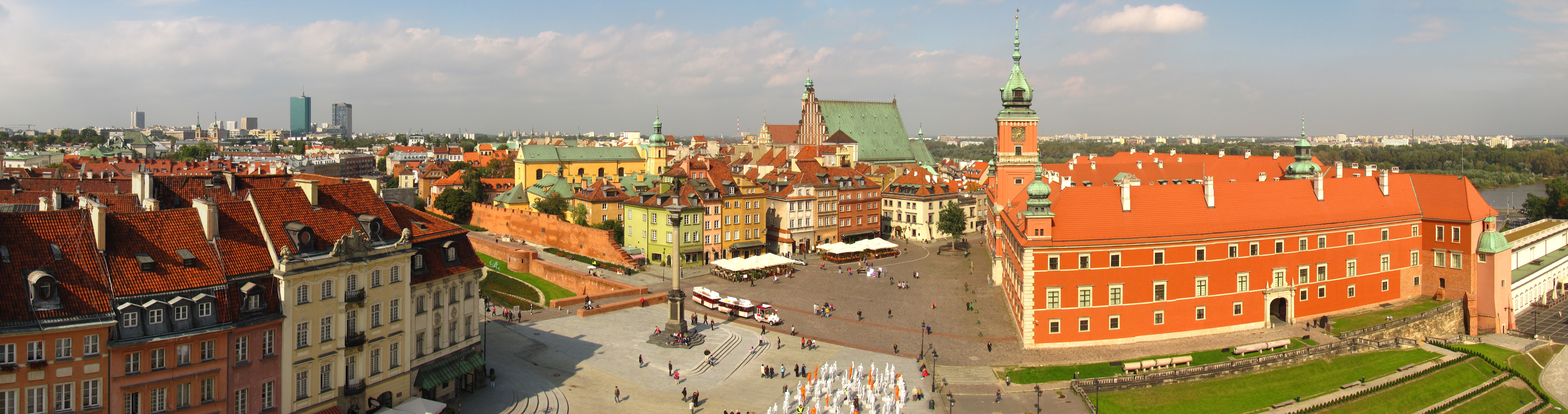 Panoramic view of the Castle Square in Warsaw.